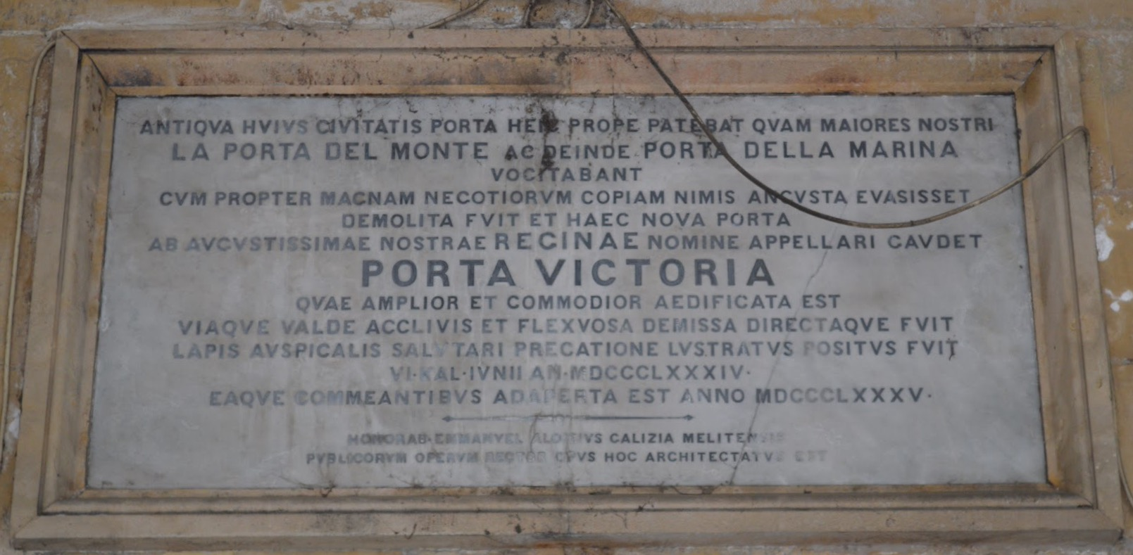 Plaque at Victoria Gate in Valletta, Malta